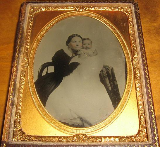 a tinotype from around 1860.